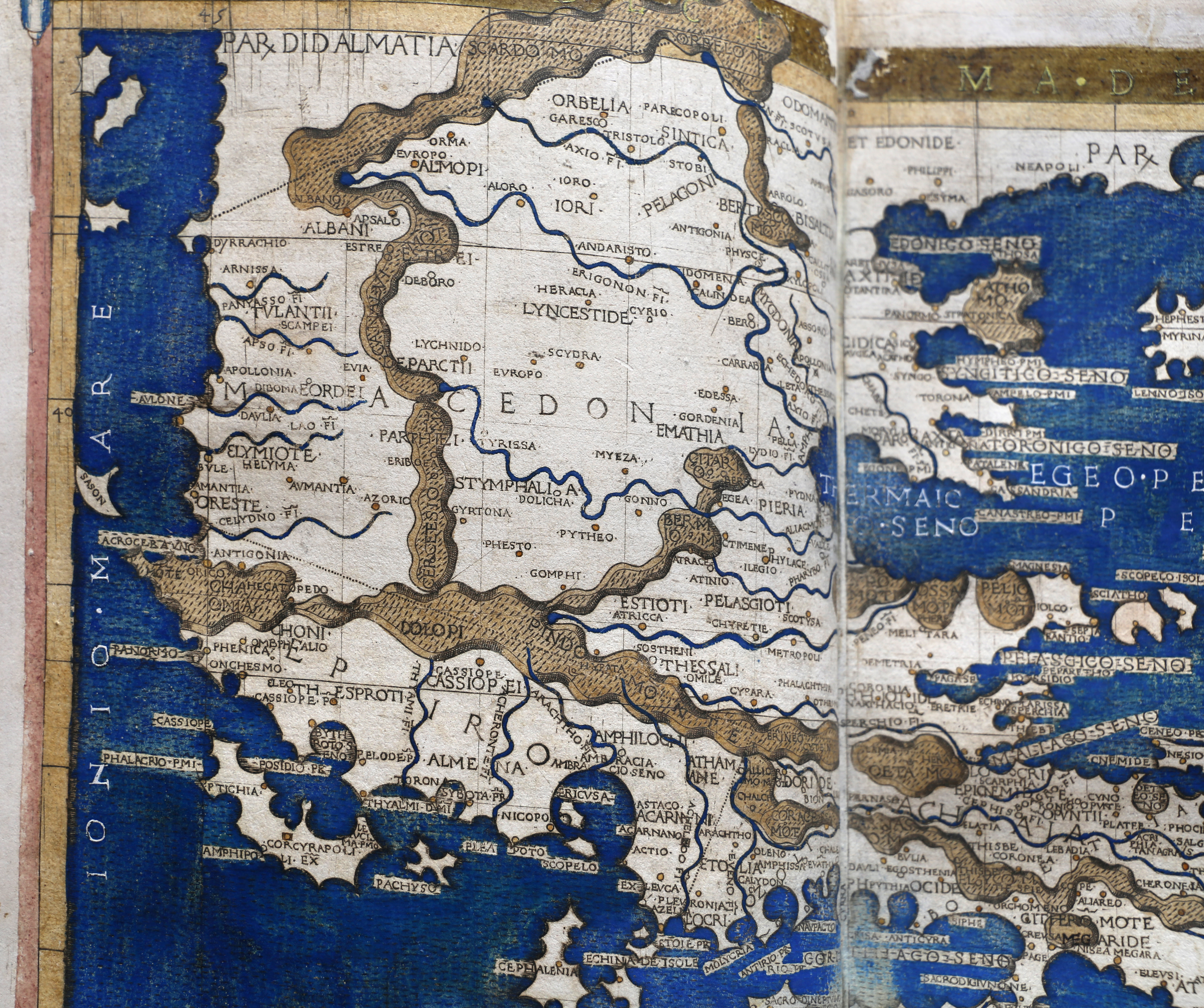 Geographia by Francesco Berlinghieri (Crusca)